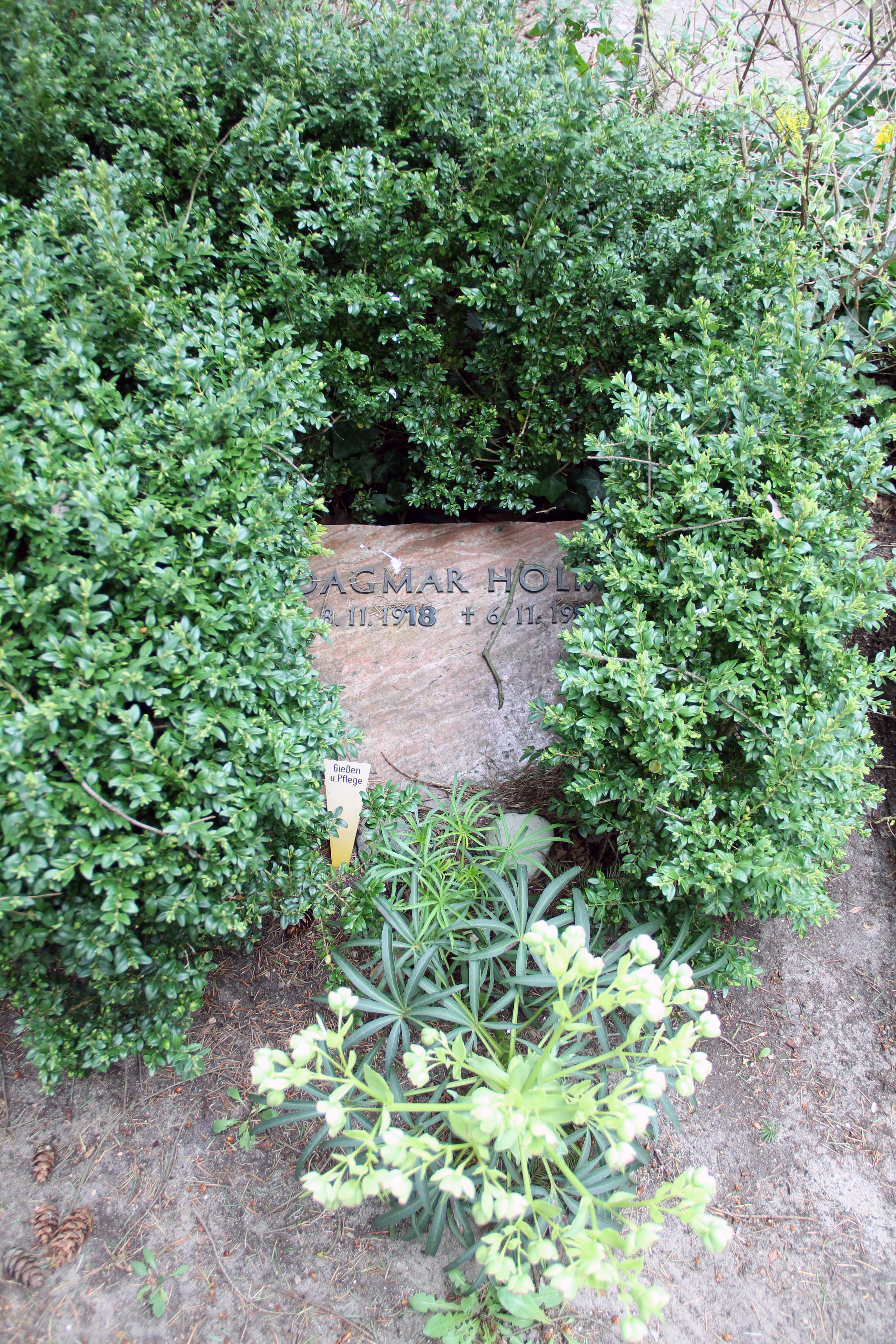 Grave, Claus Holm, Trakehner Allee 1, Berlin-Westend, Germany